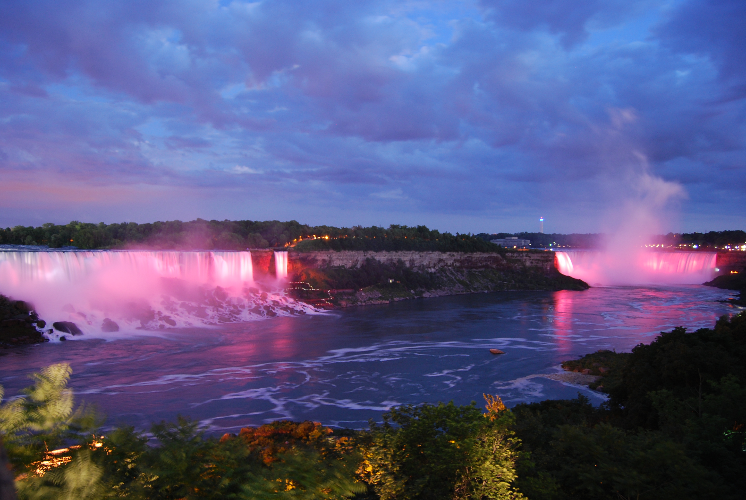 Niagara Falls - Canadian and American Falls at dusk